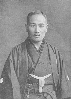 関根金次郎 Kinjirō Sekine, the 13th Lifetime Shogi Meijin